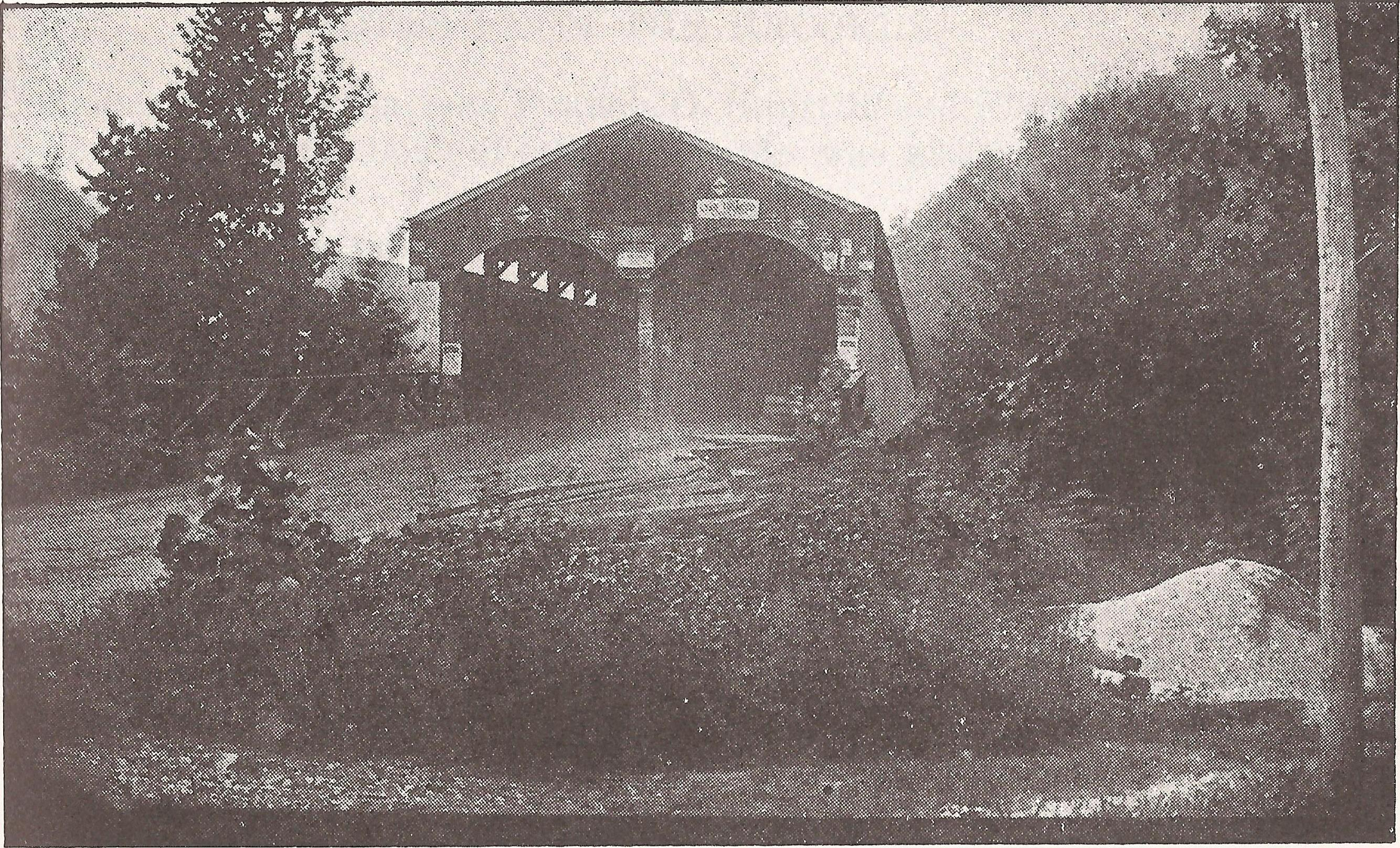 The Philippi Covered Bridge (1852), Philippi, West Virginia. (Photo ca. 1899.)